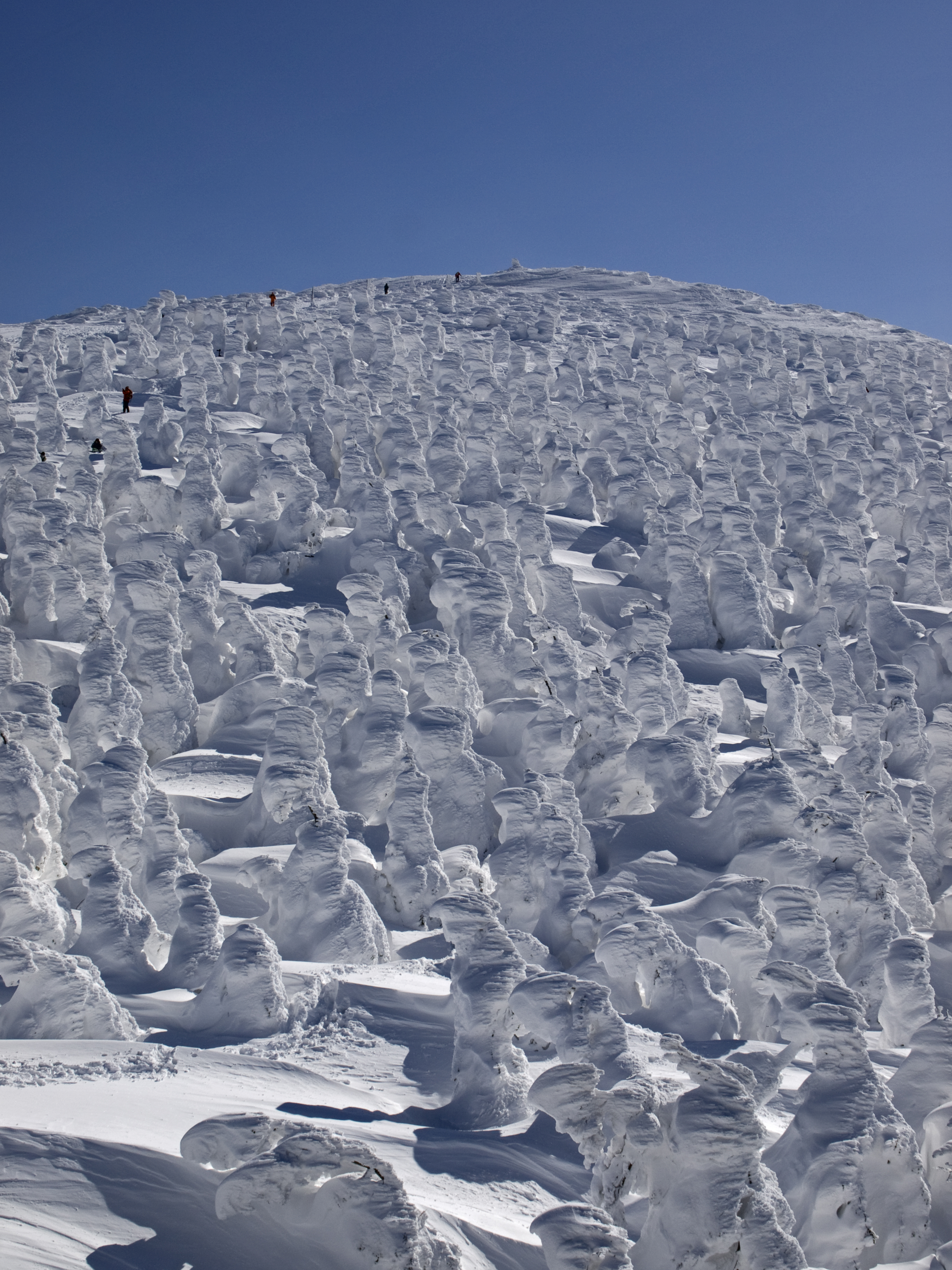 Snow monsters in Zao Onsen, view from the top station of the ropeway